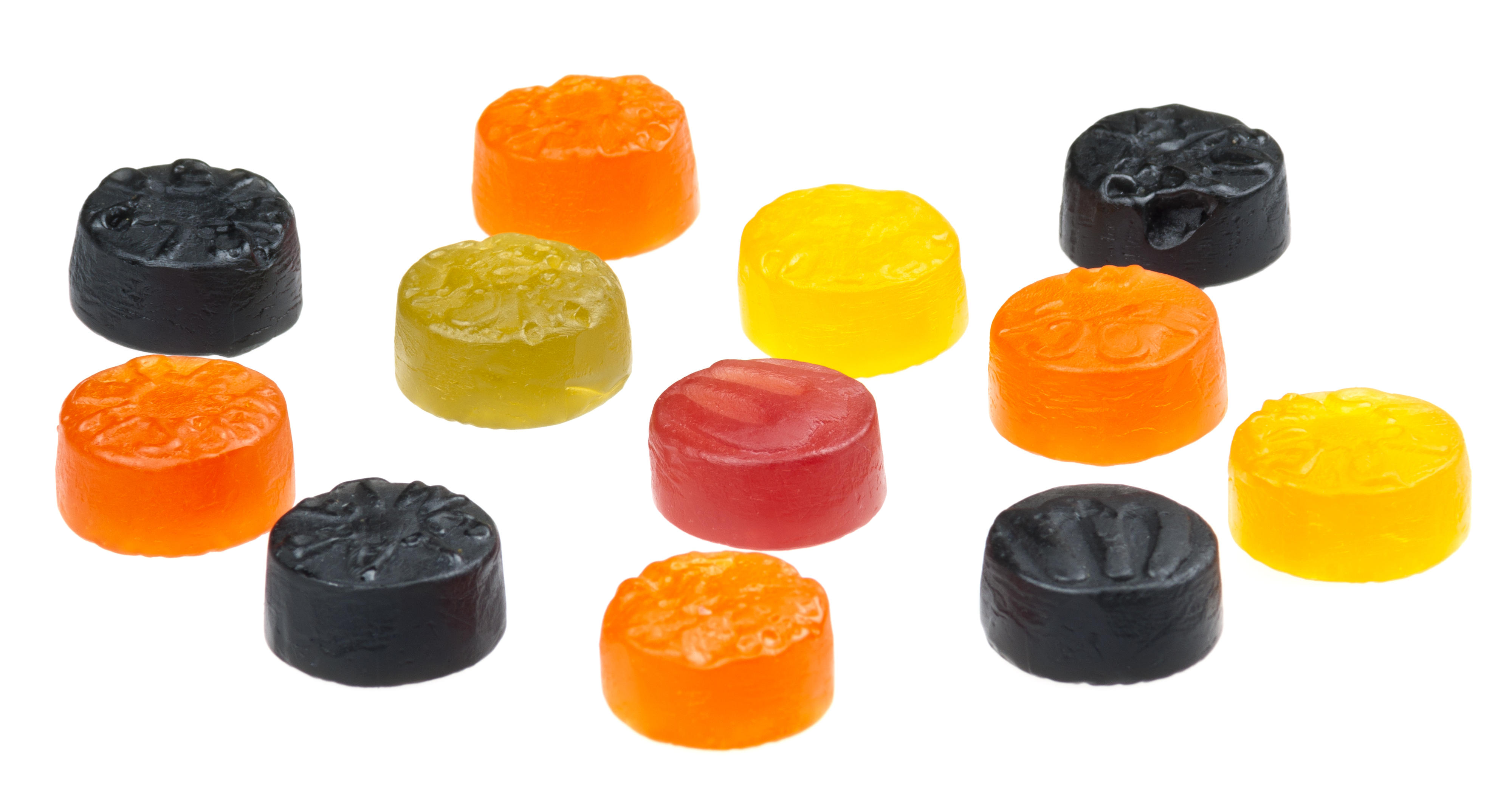 The contents from a pack of Maynard's Wine Gums.